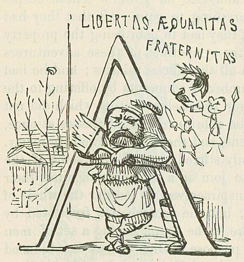 Image by John Leech, from: The Comic History of Rome by Gilbert Abbott A Beckett. Bradbury, Evans & Co, London, 1850s Initial A – Libertas, Aequalitas, Fraternitas